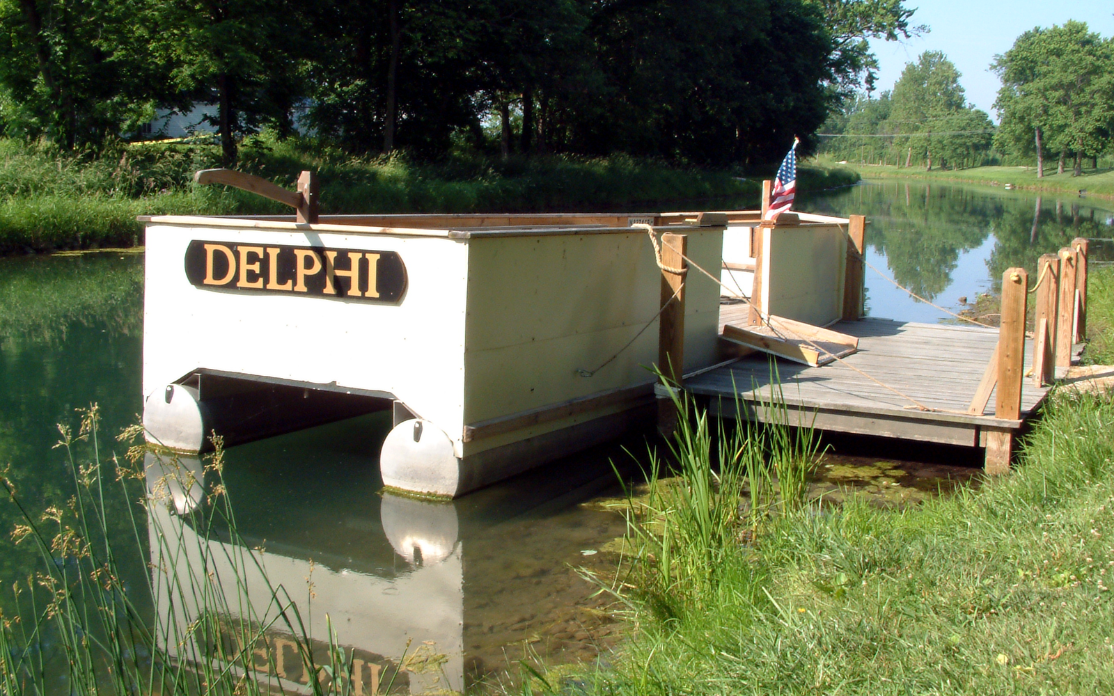 A pontoon boat floats on a restored section of the Wabash and Erie Canal in the town of Delphi in Carroll County, Indiana. Photo looks southwest.